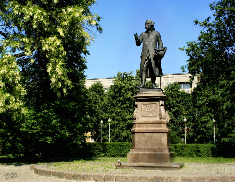 Monument of Immanuel Kant